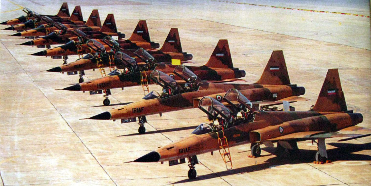 Iranian Northrop F-5 during Iran-Iraq war.